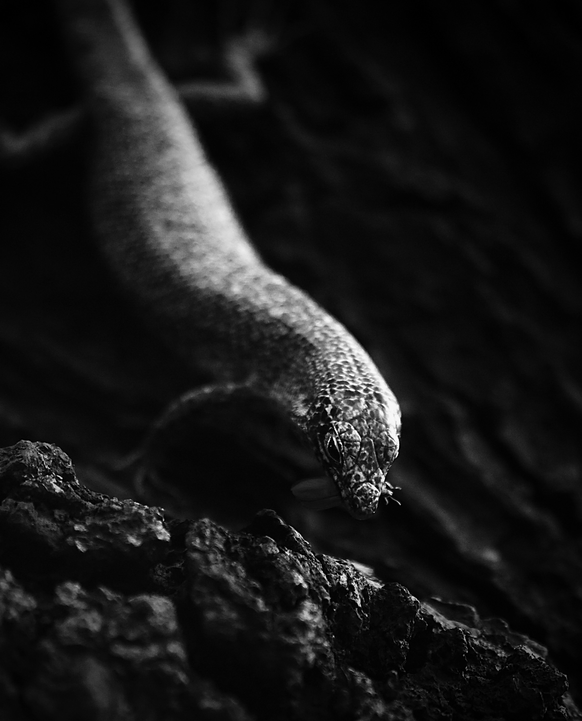 Noronha skink (Trachylepis atlantica) on Fernando de Noronha island, Brazil, eating an insect. Original description: "Parece que as mabuias de Fernando de Noronha comem qualquer coisa. Maçã. Sanduiche de atum. De vez em quando até insetos. It seems as if the skinks on Fernando de Noronha eat anything. Pieces of apple, tuna sandwiches. At times even insects."